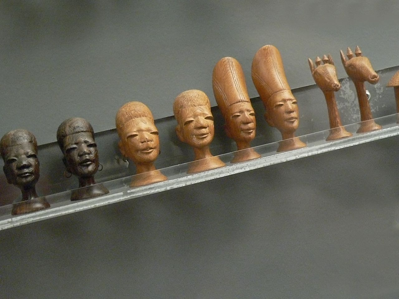 Makonde chess set from East Africa in African blackwood and blond hardwood, 20th century. Photographed at the Maryhill Museum of Art in Goldendale, Washington.